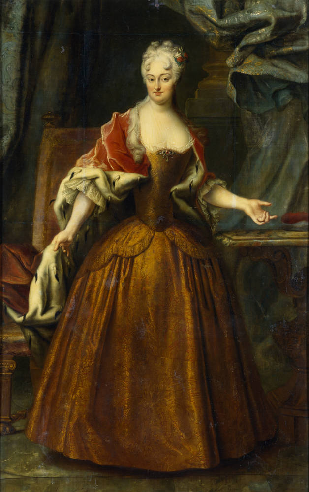 Portrait of Sophia of Saxe-Weissenfels, Countess of Brandenburg-Bayreuth (1684–1752)